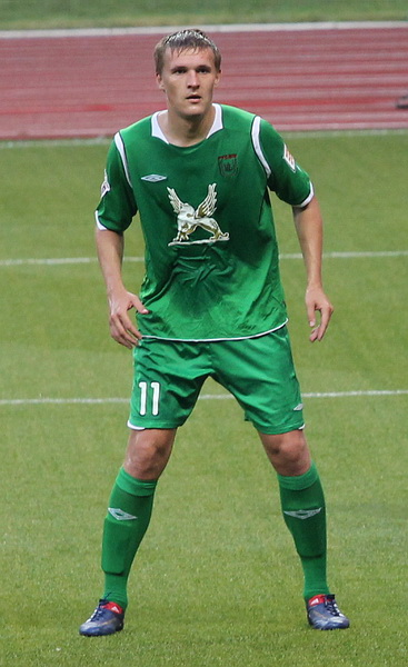 Alexandr Bukharov